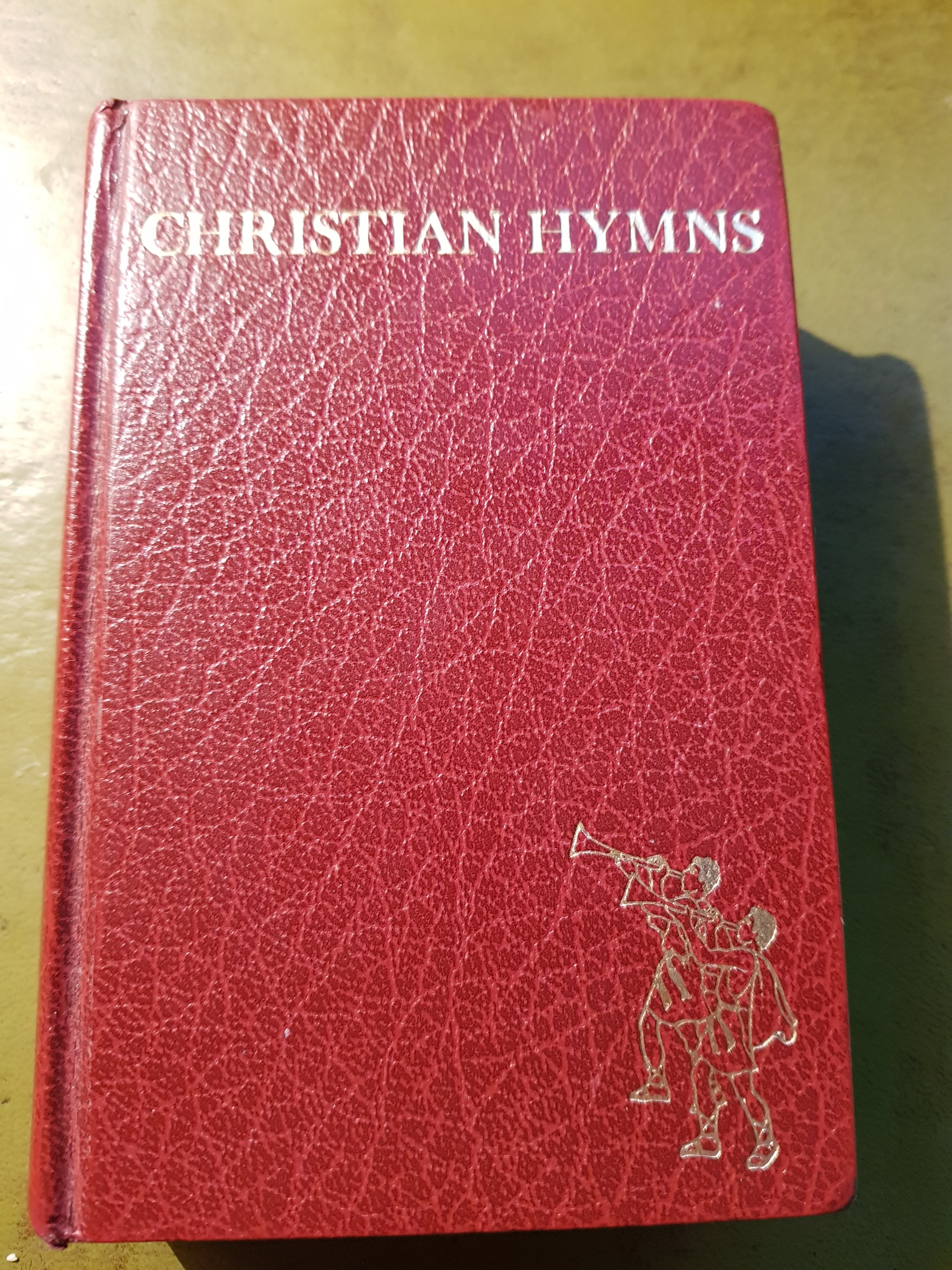 Original 1977 small hand-held version in the burgundy cover